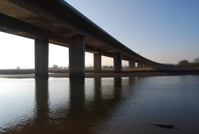 M5 Bridge crosses the River Exe